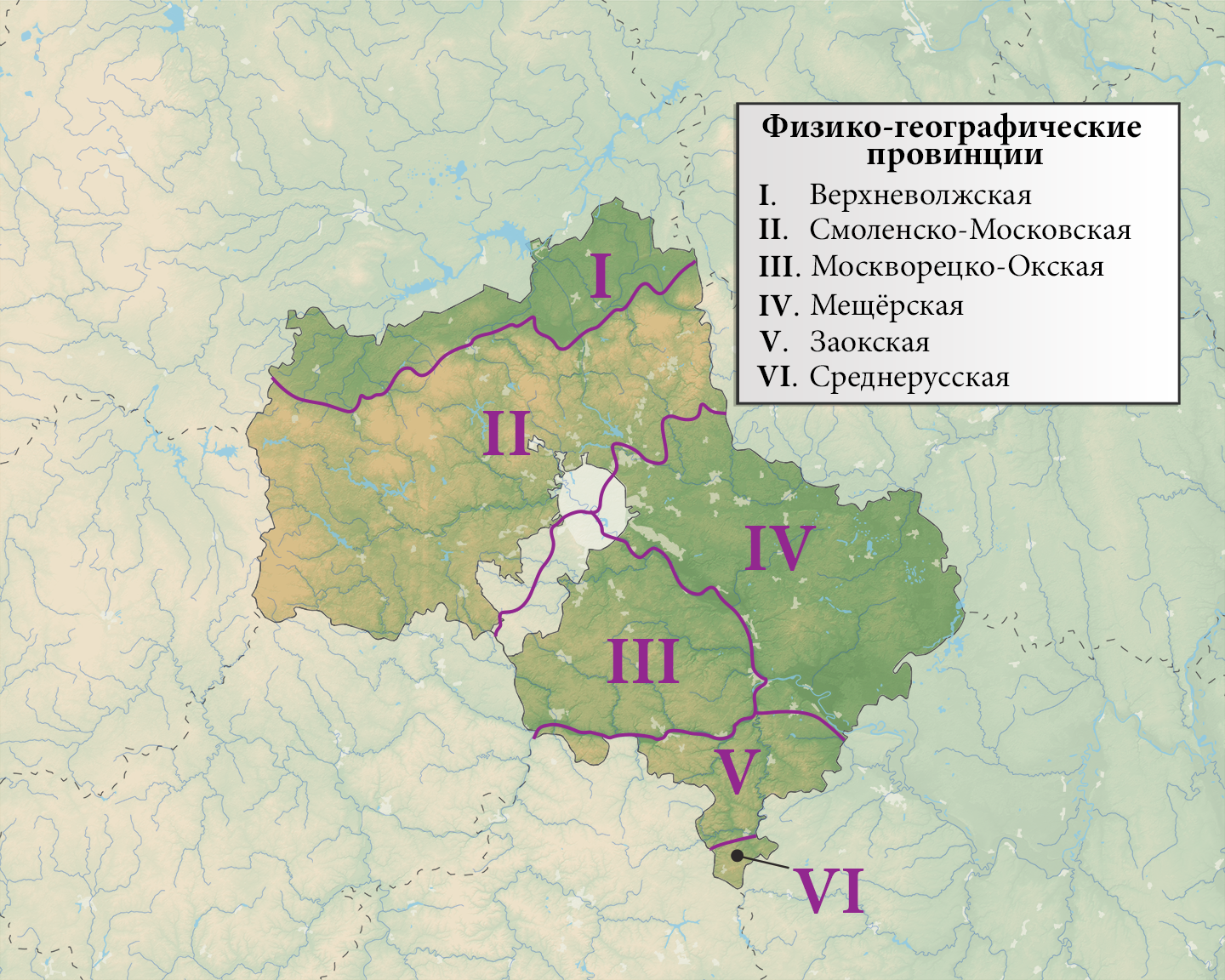 Geographical zoning of Moscow Oblast